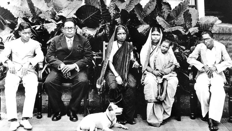 Dr. Babasaheb Ambedkar with his family members at Rajgruha, his residence in Mumbai. From left – Yashwant (Son), Dr. Ambedkar, Smt. Ramabai (Wife), Smt. Laxmibai (Wife of his elder brother, Anand) and Dr. Ambedkar’s favourate dog, Tobby.